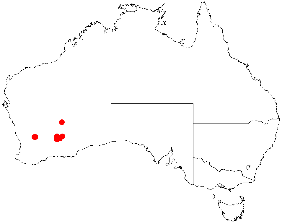 Acacia websteri occurrence data from Australasia Virtual Herbarium downloaded from on 8 December 2018